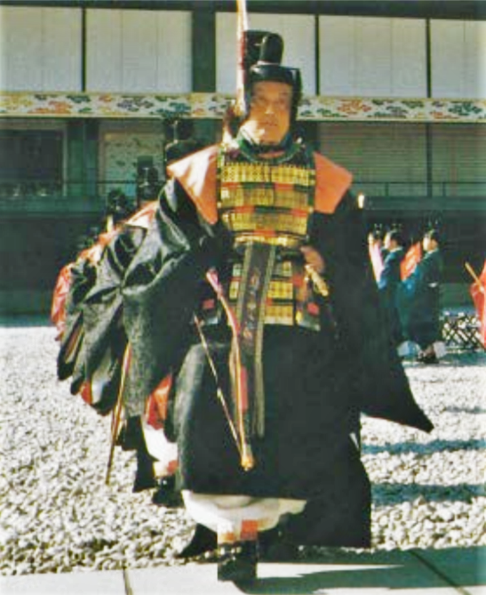 A man wearing a Military-officer-costume.